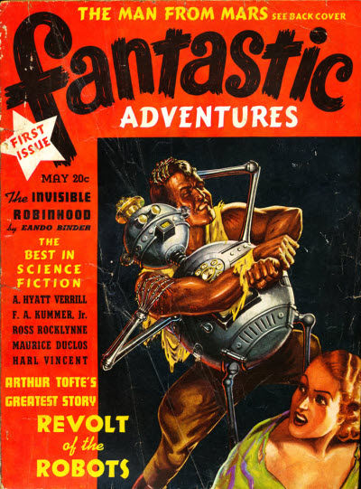 Fantastic adventures 193905 v1 n1 cover